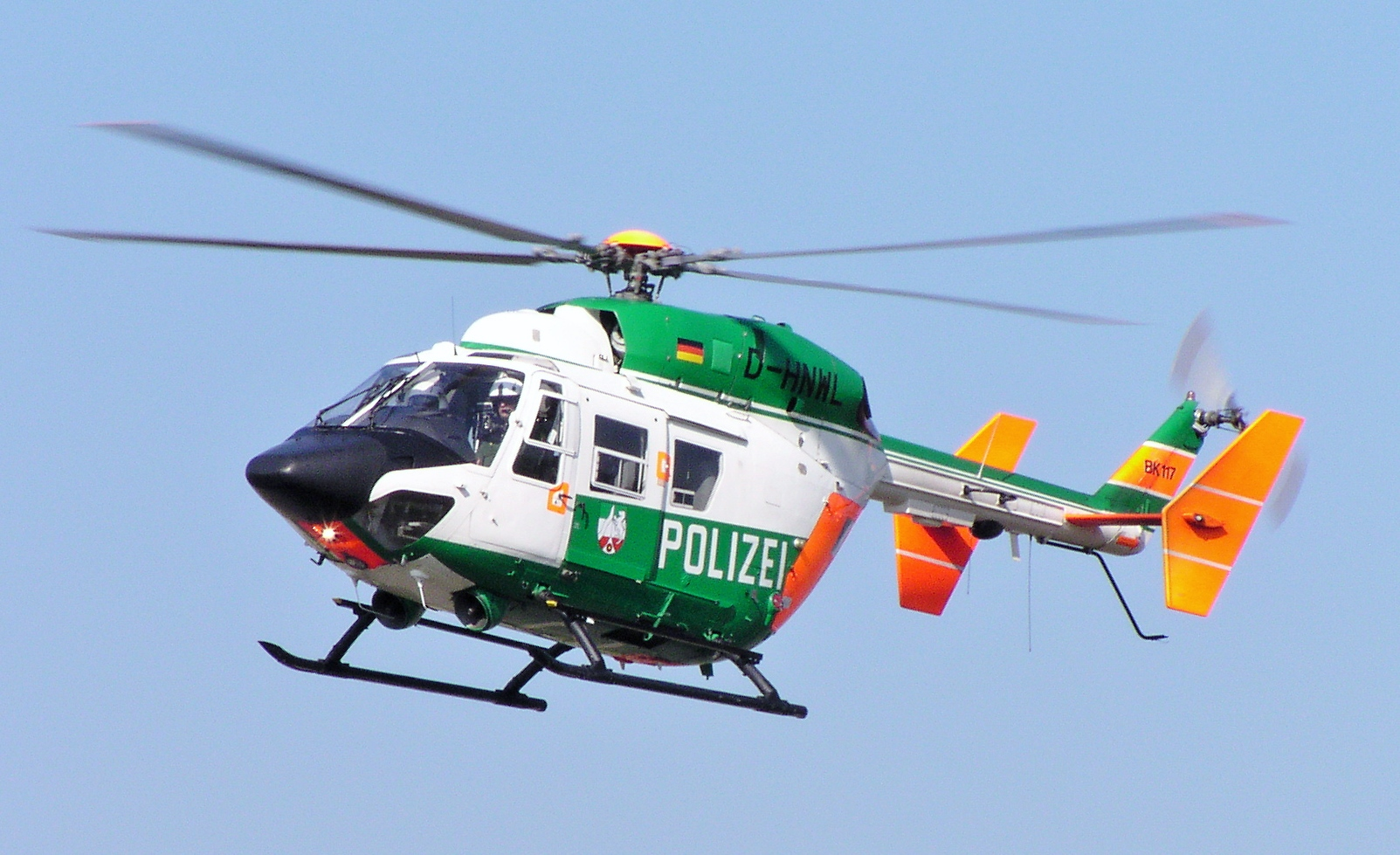 Eurocopter BK 117 B2 helicopter of the North Rhine-Westphalia State Police at Duesseldorf, Capitol of North Rhine-Westphalia, in October 2005.